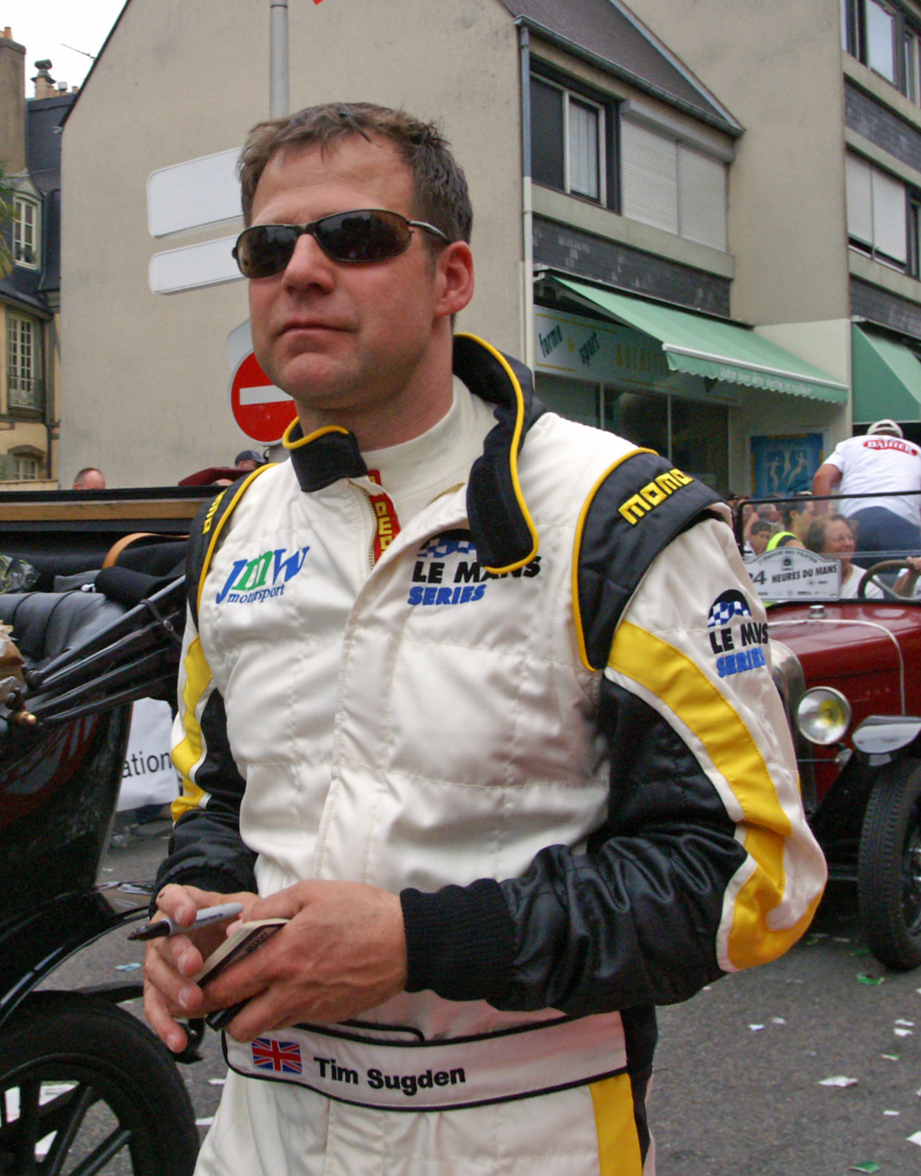 Tim Sugden, one of the drivers of Ferrari F430 GTC (No. 92) for JMW Motorsport Drivers' Parade Le Mans 2009